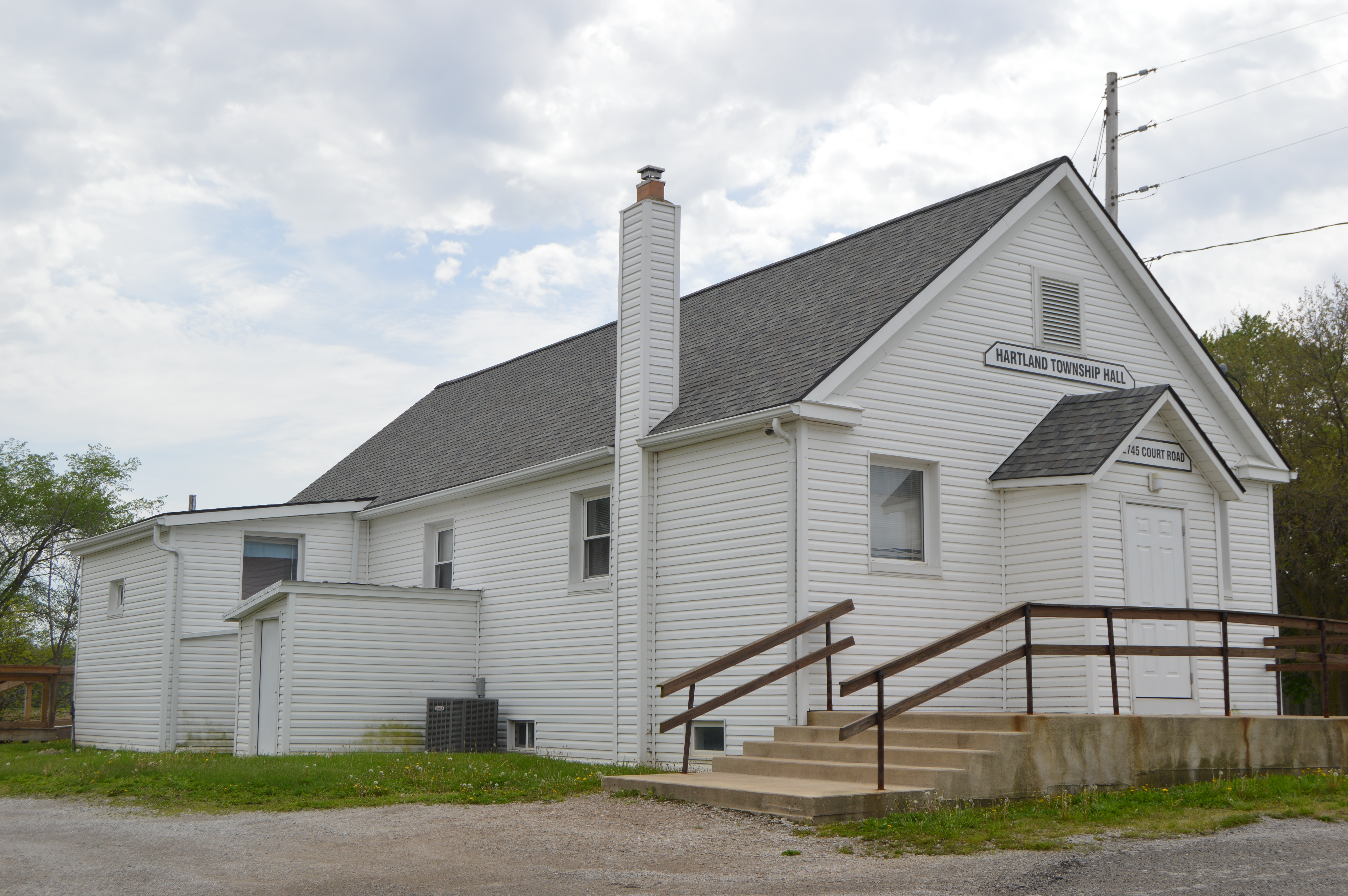 Front and eastern side of the Hartland Township hall, located at the intersection of Hartland Center and Court Roads (known as Hartland Center) in Hartland Township, Huron County, Ohio, United States.